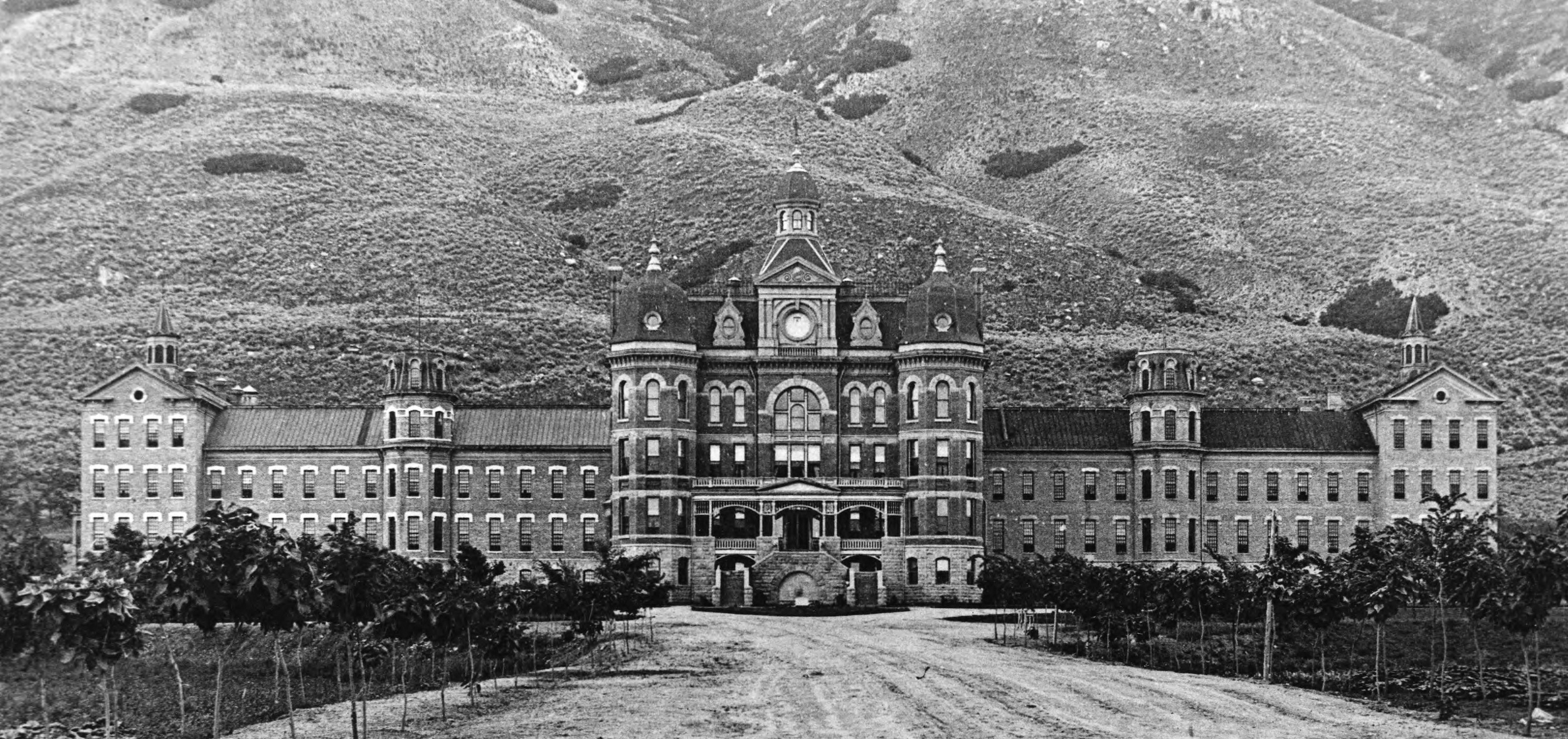 The Utah State Hospital in Provo, Utah. This photo was taken circa 1896 probably when the hospital was still known as the Utah Territorial Insane Asylum.